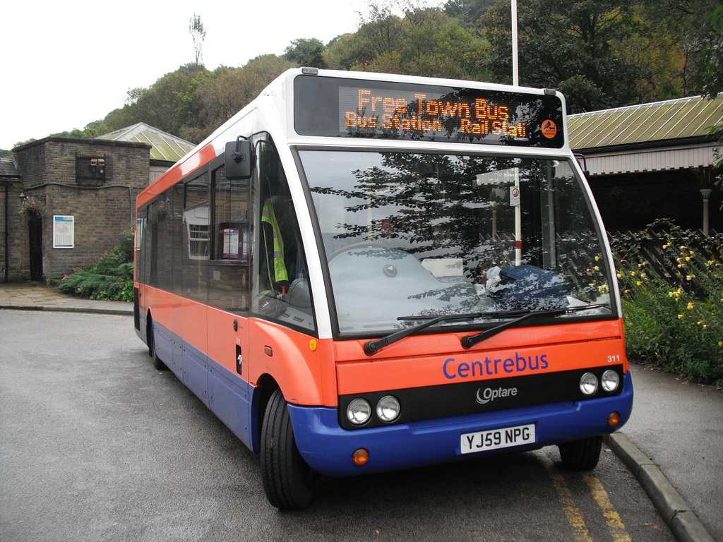 Centrebus have run the Sunday 900 today (25-09-11)